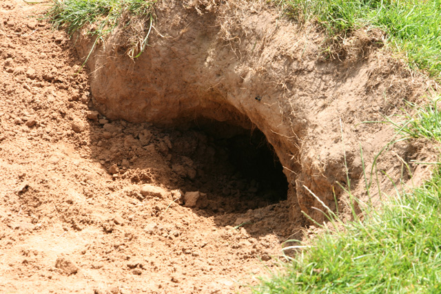 Mr Badger's front door This is a badger set.